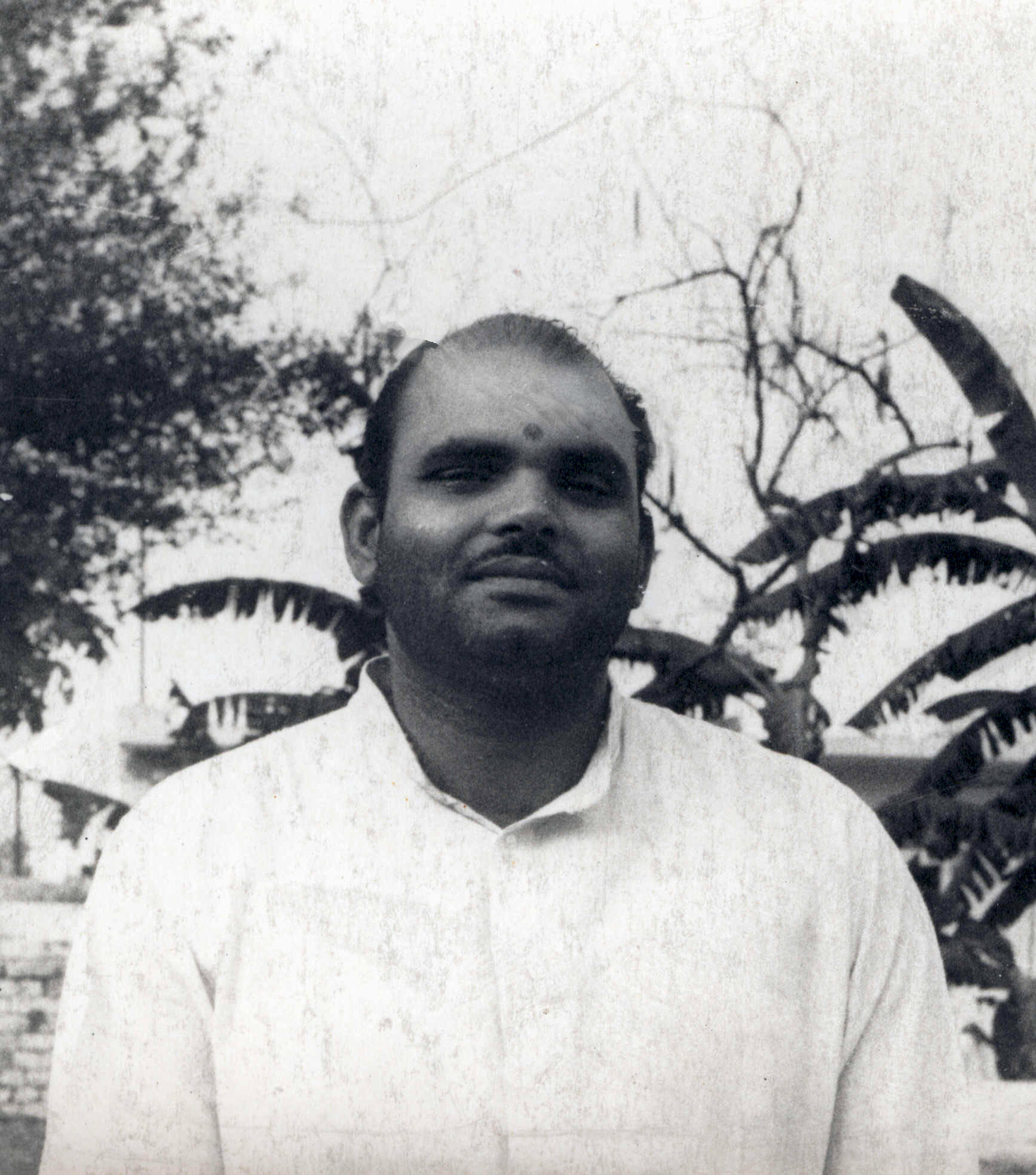 Ram Kumar Sharma